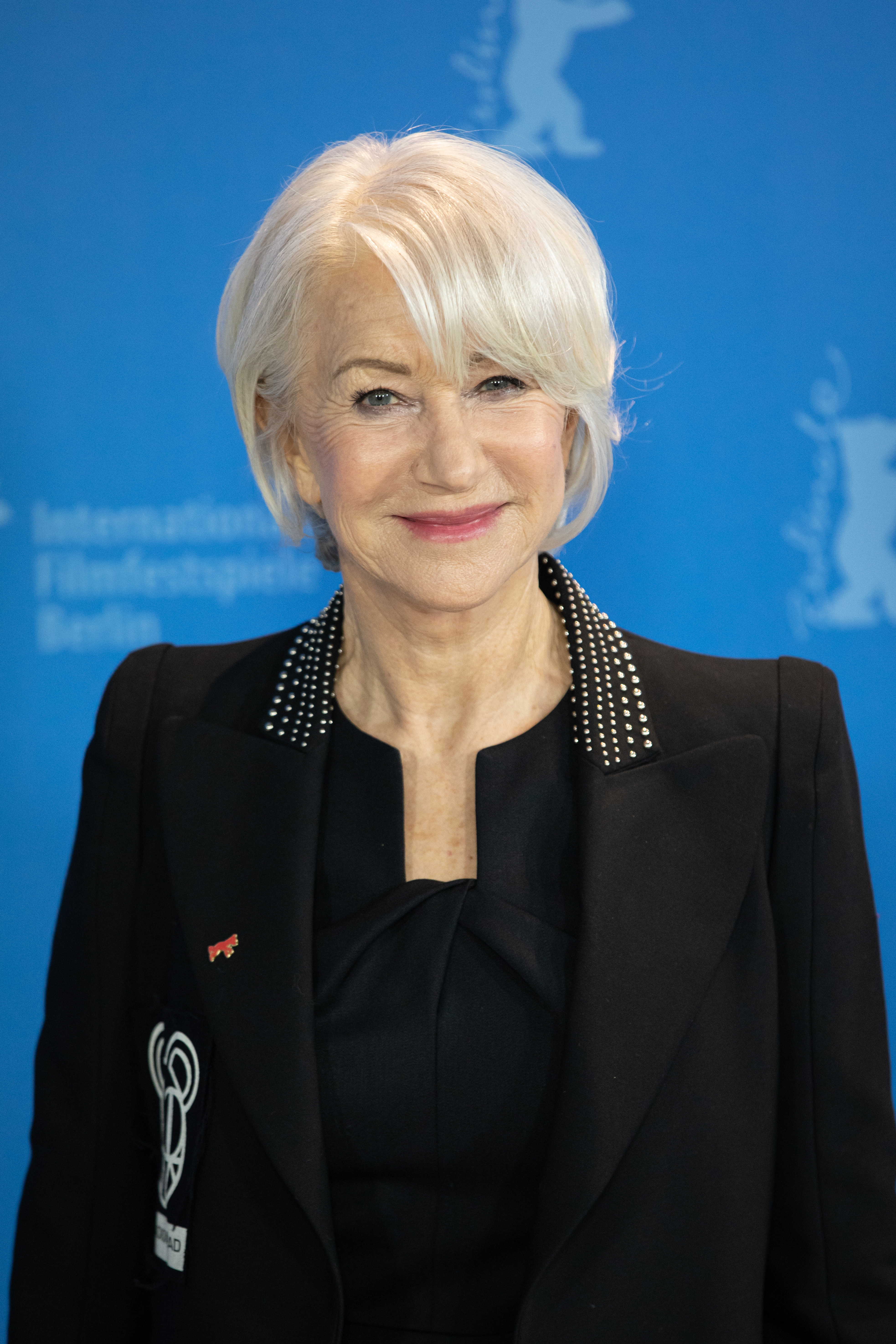 Actress Helen Mirren at the Berlinale 2020